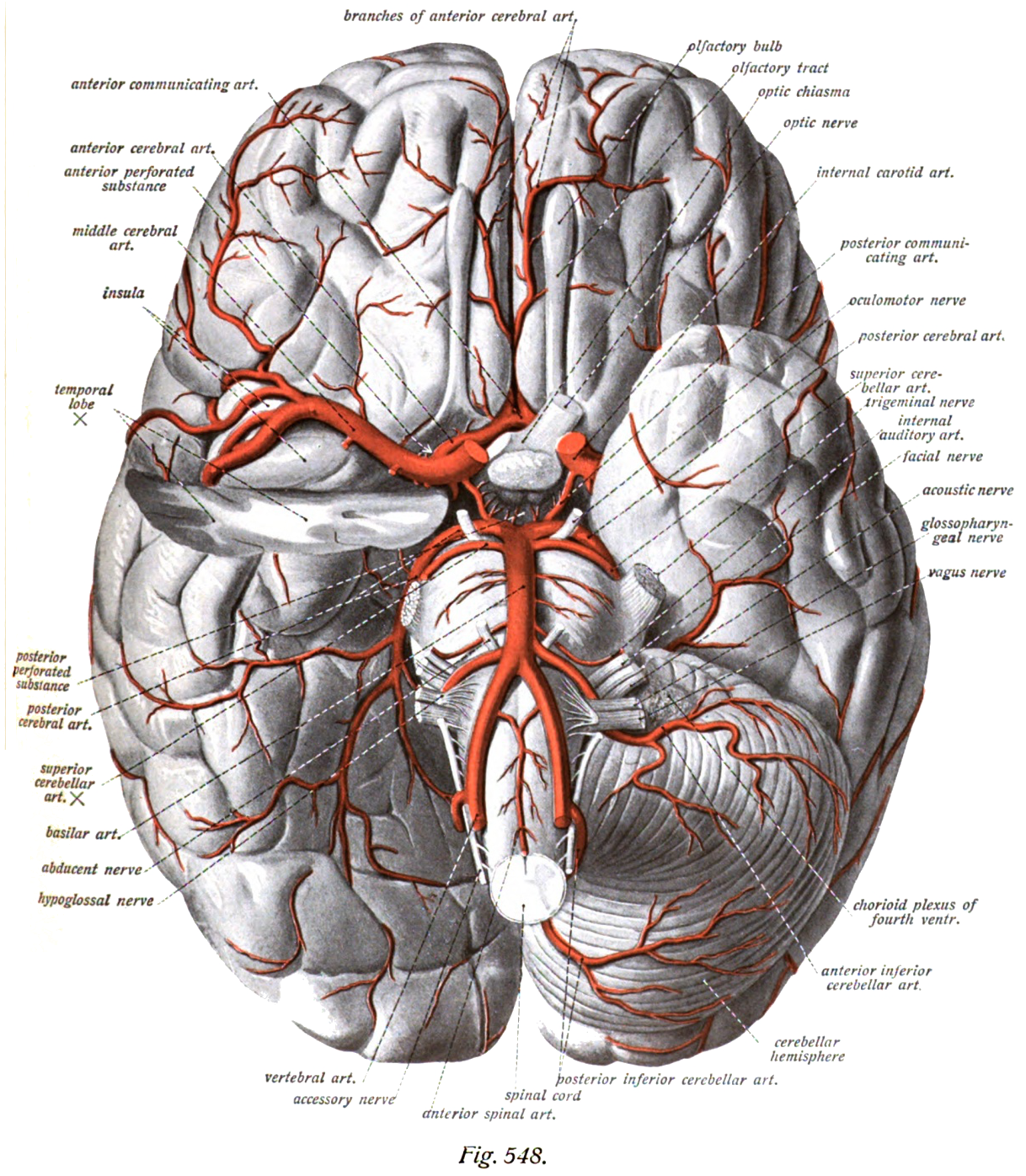 Arteries of the brain, seen caudaly